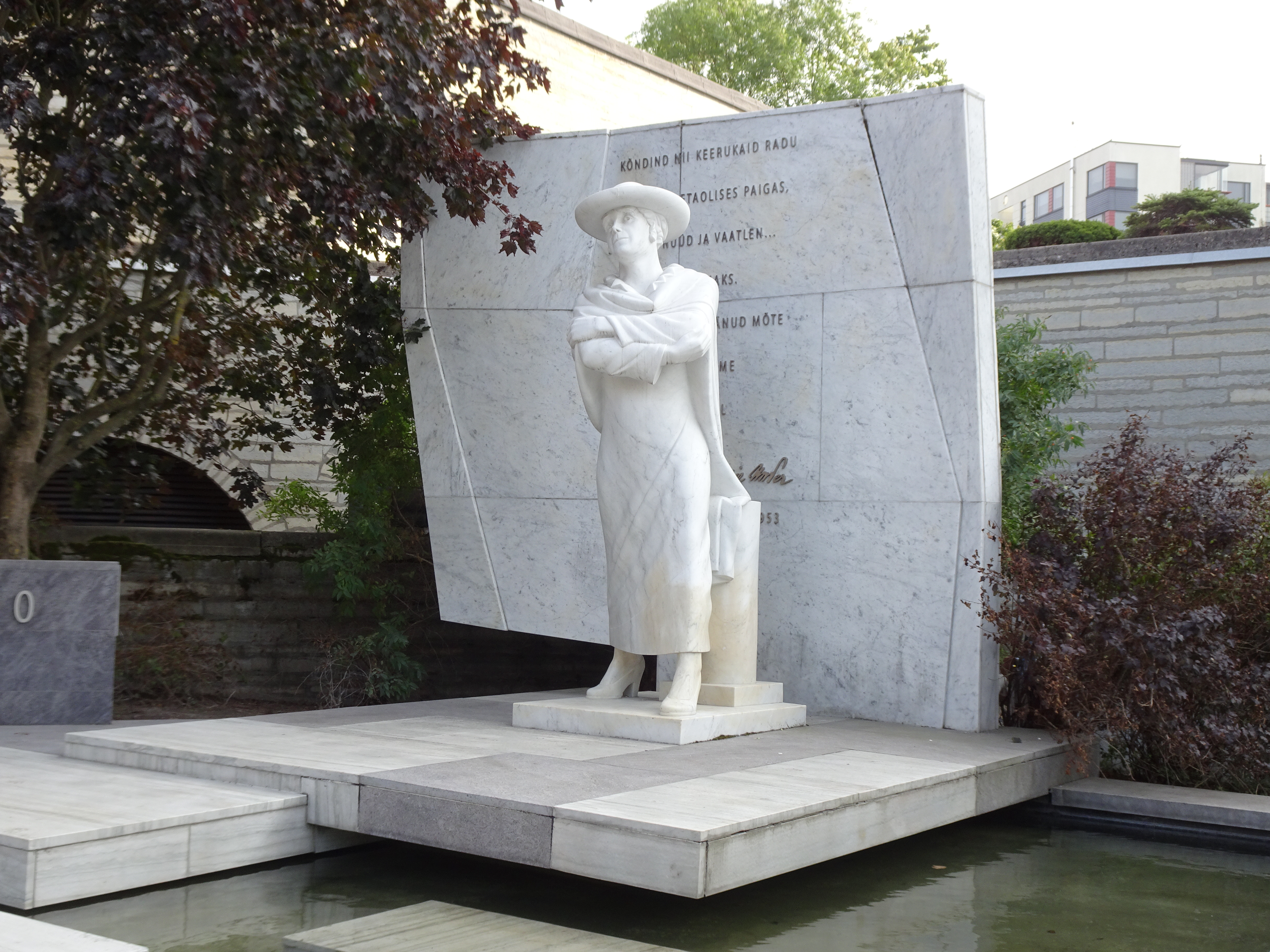 Statue of poet Marie Under in Tallinn, Estonia